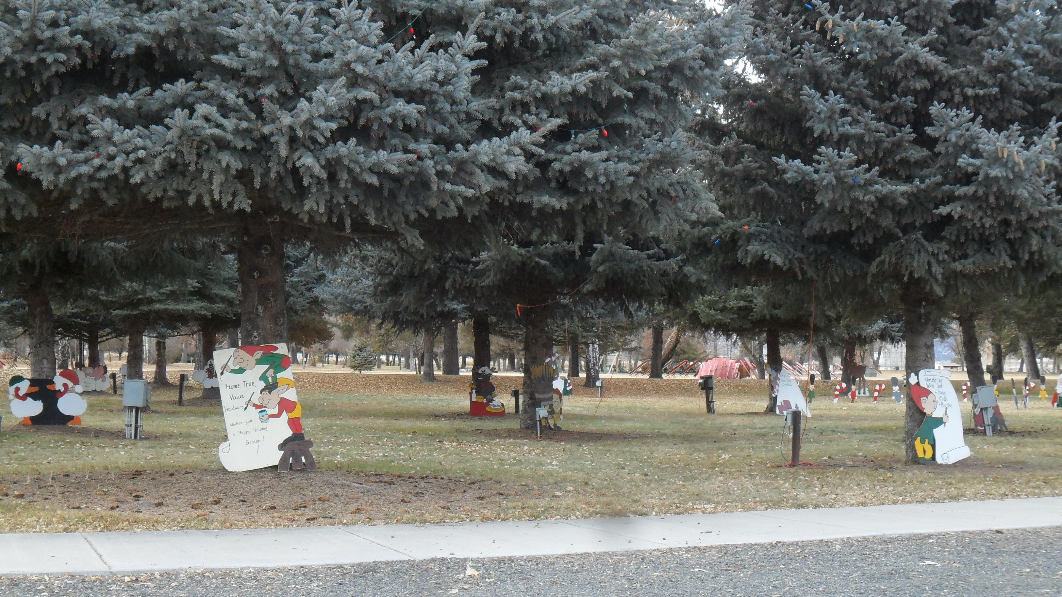 Malin town park, christmas decorations in place.